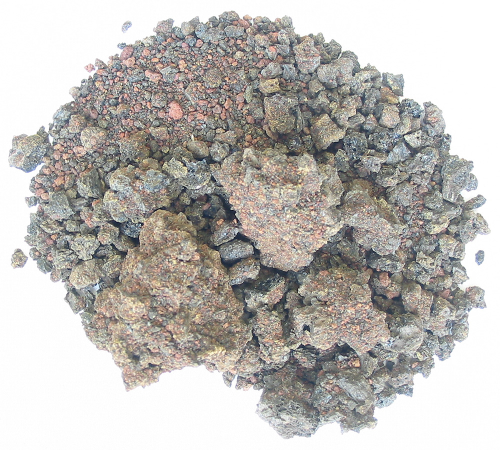 Lapilli-tuff and tephra from La Palma